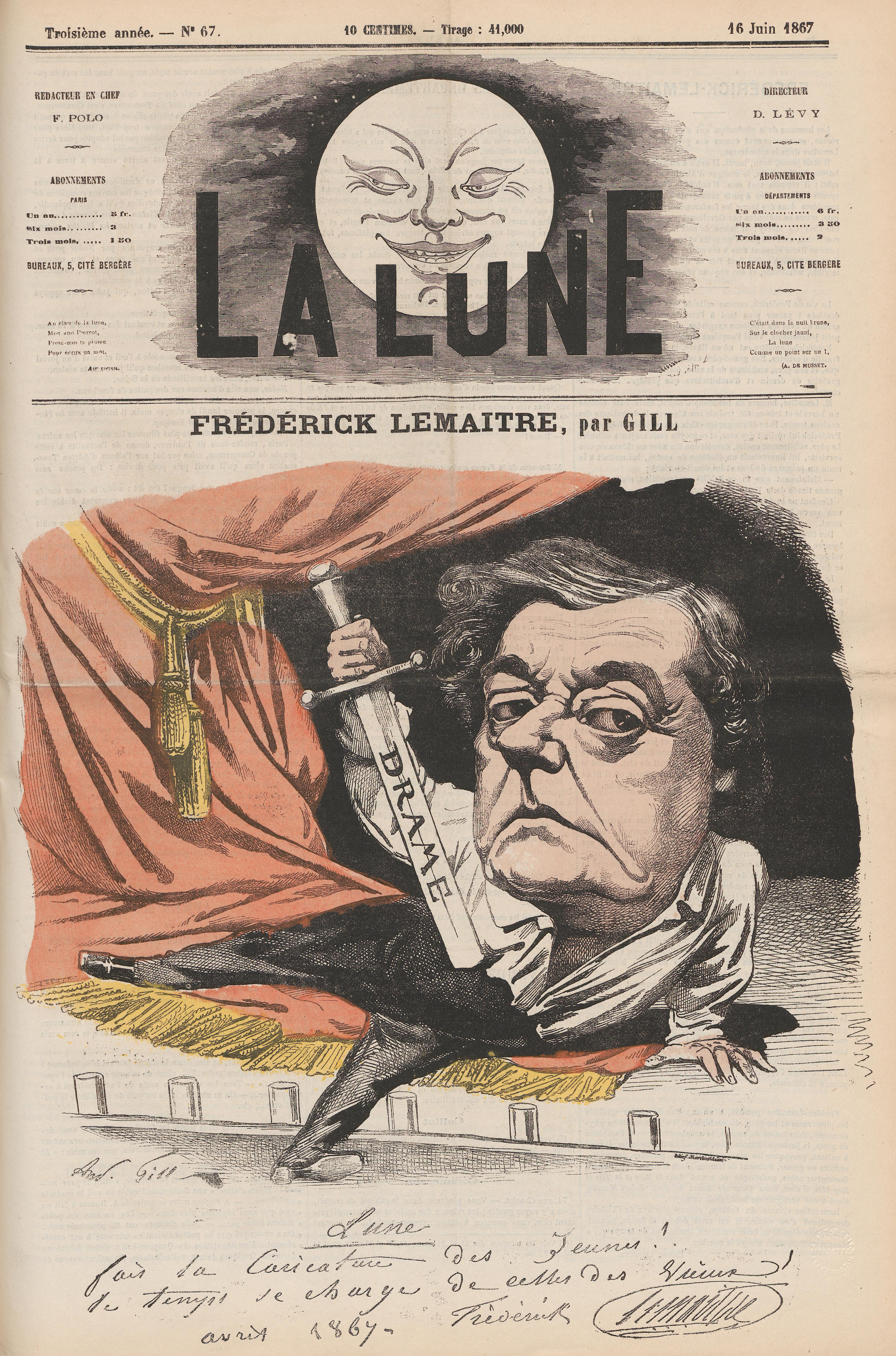 Caricature of Frédérick Lemaître Cover of La Lune 16 June 1867 Hand-colored Engraving 12"w x 18"h